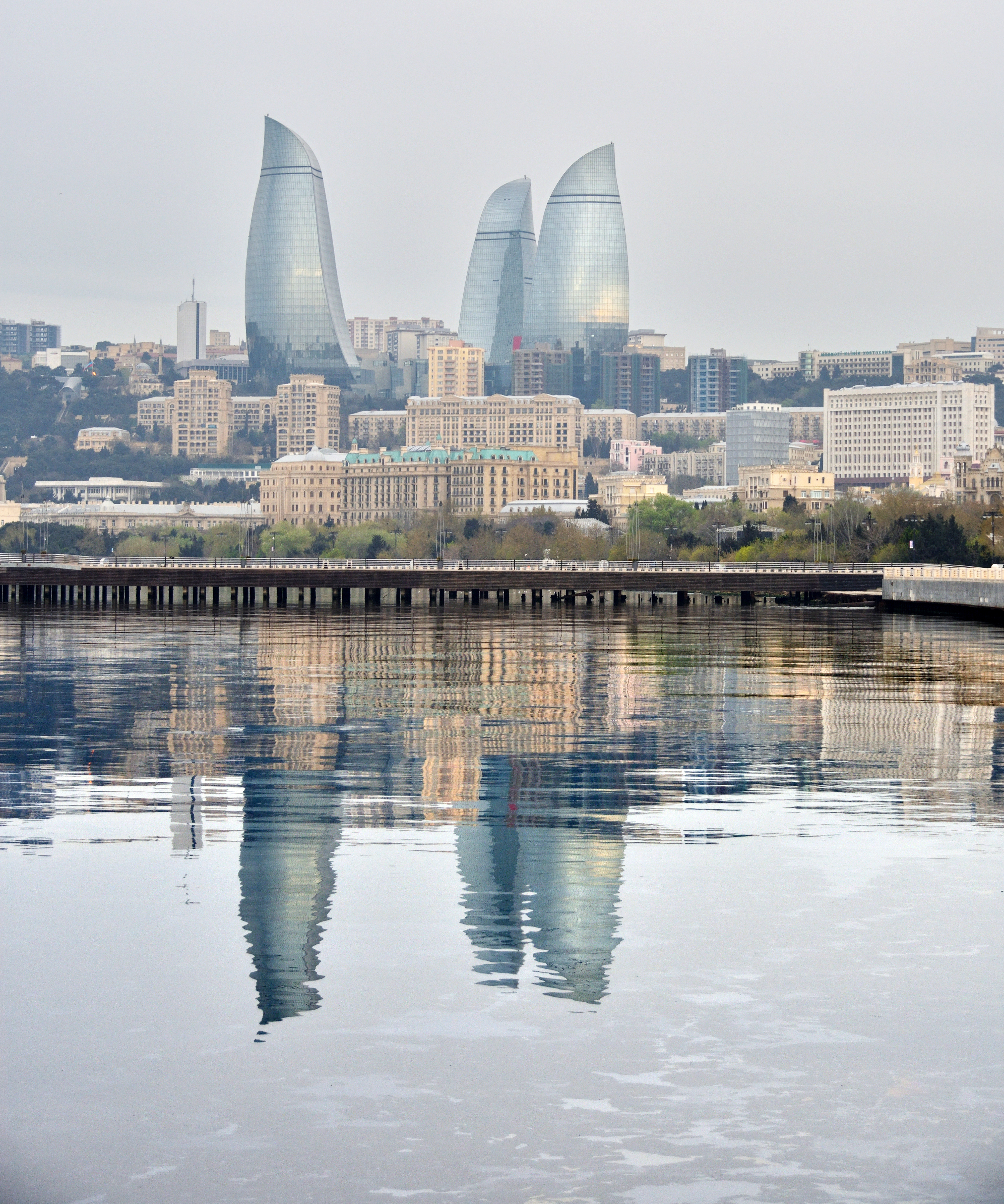 View of Baku from Baku Boulevard, Azerbaijan